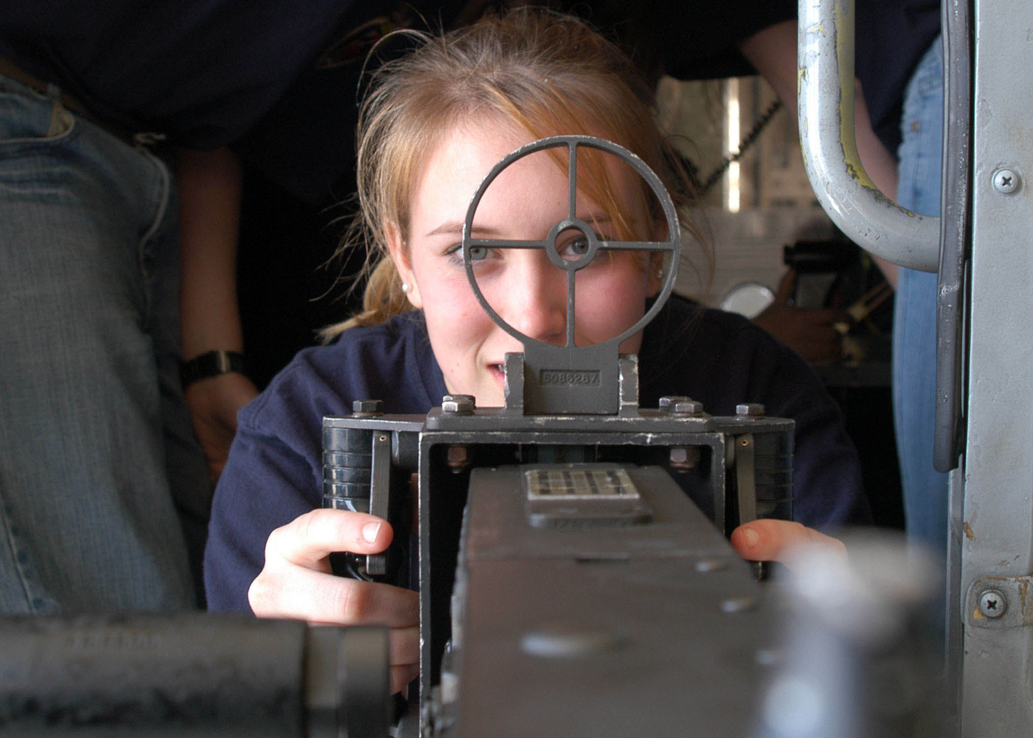 San Diego (March 14, 2006) - A Canadian Sea Cadet look through the sights of a machine gun mounted on an SH-60B Seahawk helicopter assigned to Helicopter Sea Combat Squadron Two one (HSC-21). The tour highlighted the squadron's capabilities and helped the Cadets understand the mission of the Navy. U.S. Navy photo by Photographer's Mate Airman Brian Gaines (RELEASED)